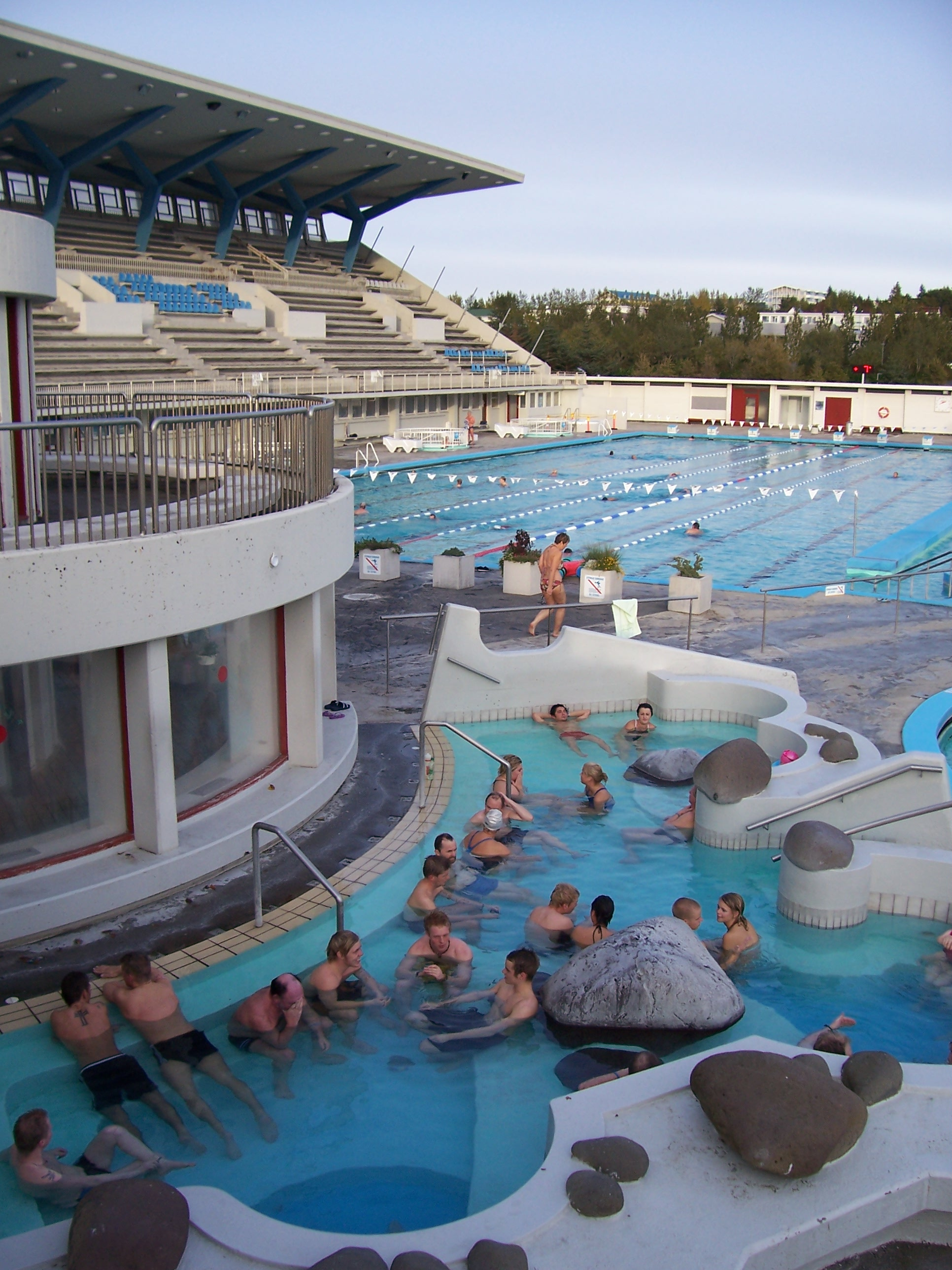 Laugardalslaug Geothermal Swimming Pool in Reykjavik